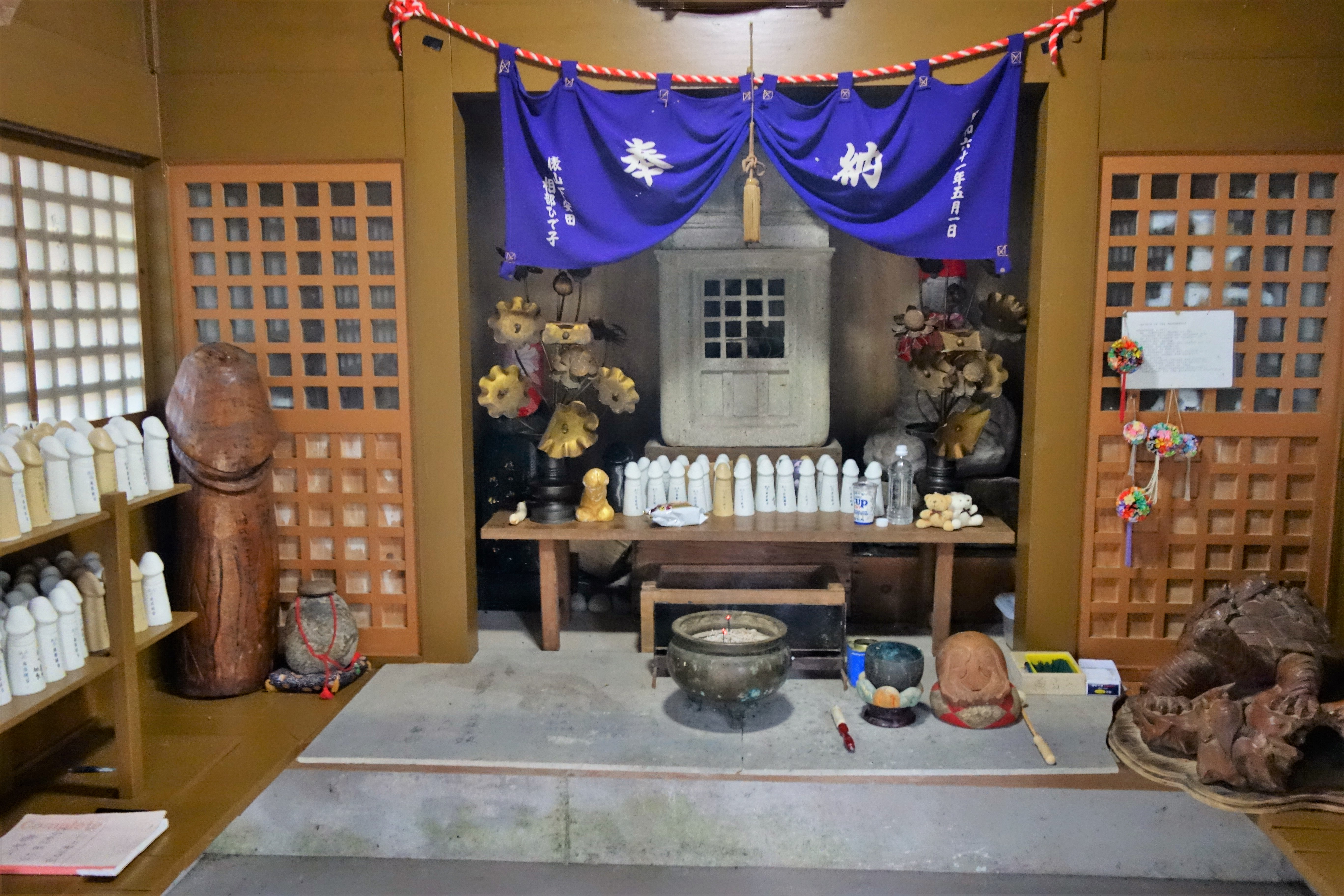 Interiors of the "mara-kannon". Mara Kannon is a prayer temple for pregnancy. Outside of tawarayama-spa, Nagato-city, Yamaguchi-pref, JAPAN. Mara means penis, Kannon is one of the Buddhist gods, but he is not a sexual god. People who want pregnancy are visiting this temple. There are many stone statues of huge penis here.